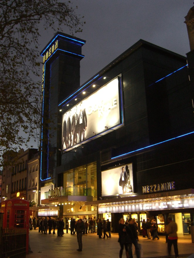 Odeon Leicester Square, London, at night.